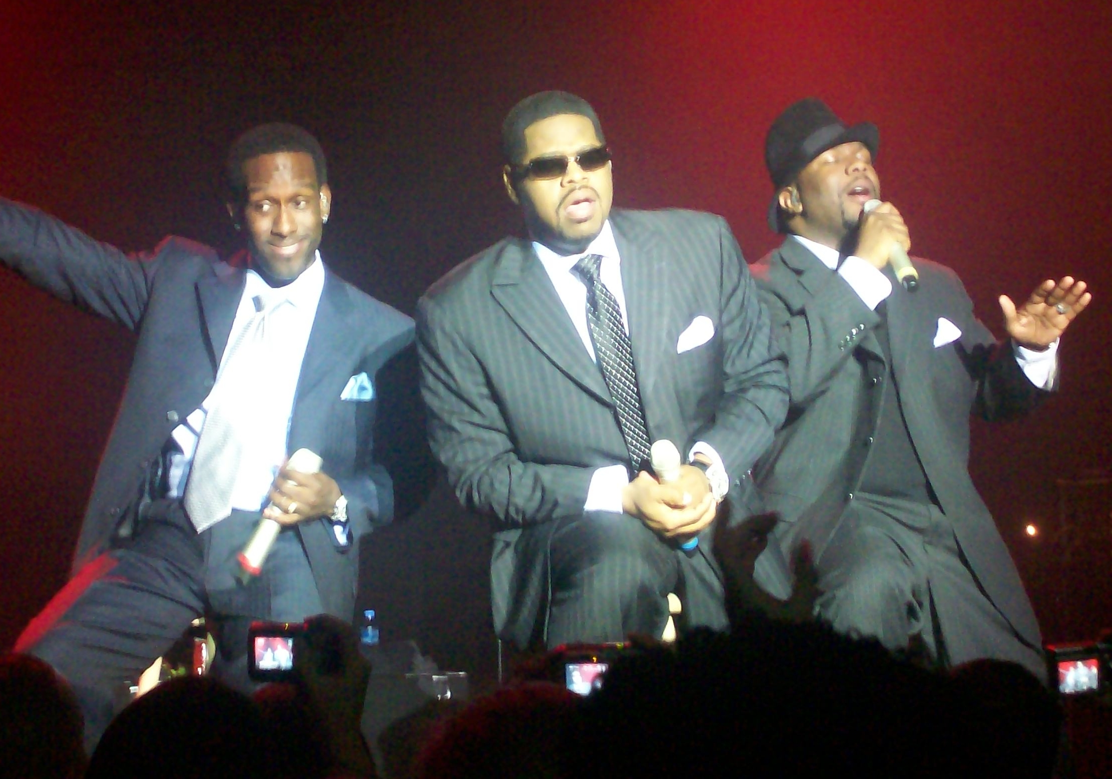 Boyz II Men Live at Vega (April 7, 2008).